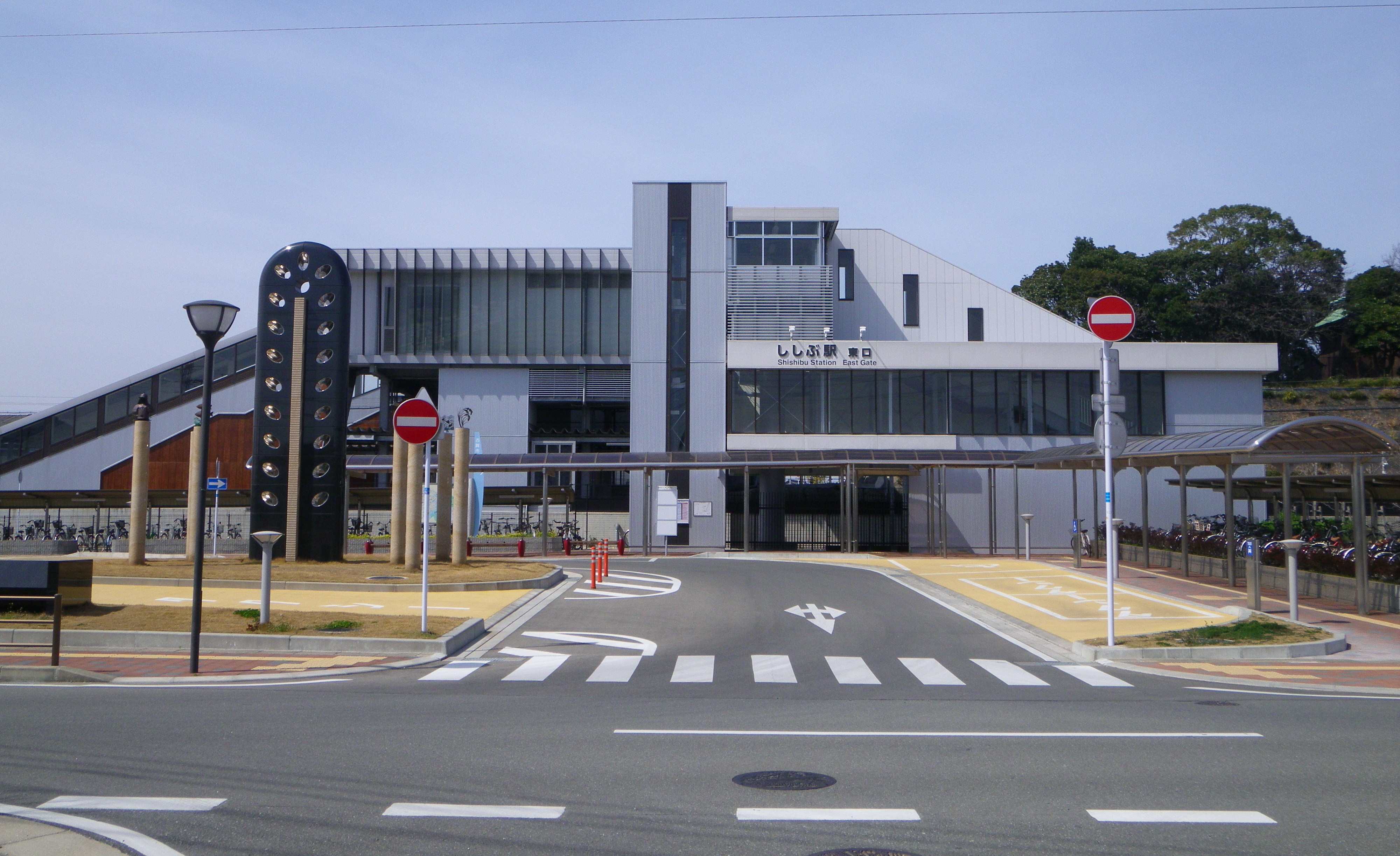 Shishibu station(East gate),Koga-city,Fukuoka,Japan.